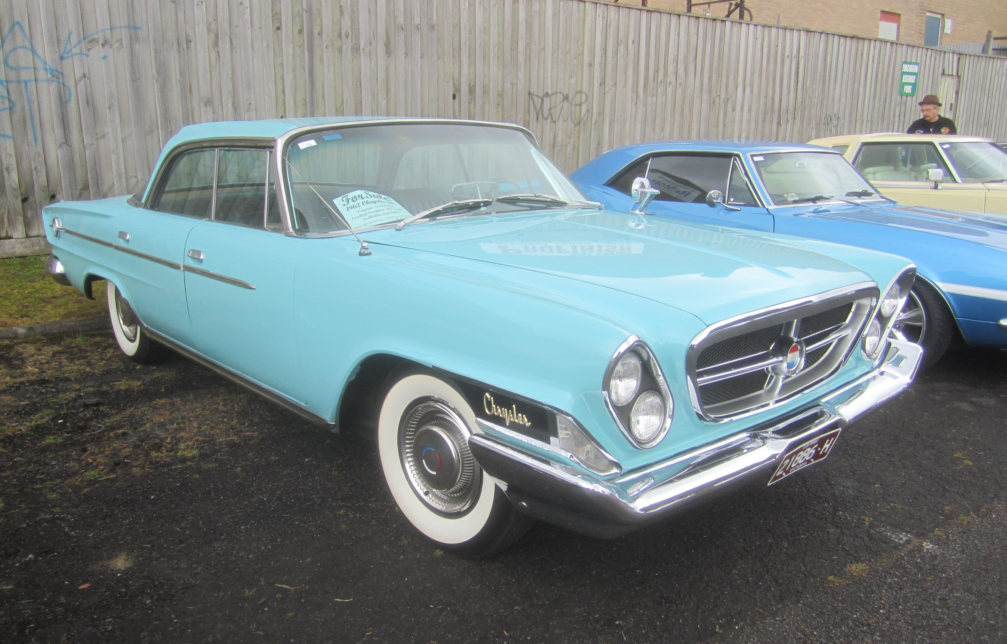 The 2 door Hardtop or Convertible 300 'letter' series cars date back to 1955 and were the ultimate in Chrysler performance, the 300 non letter series cars (like this one) was introduced in 1962 and was slotted below the letter series, adding 4-door versions and ran along side letter series cars. The letter series cars were discontinued in 1966 but the 300 continued on until 1971 Engines; 413 cu in V8 (standard on Letter series) or 383 cu in V8